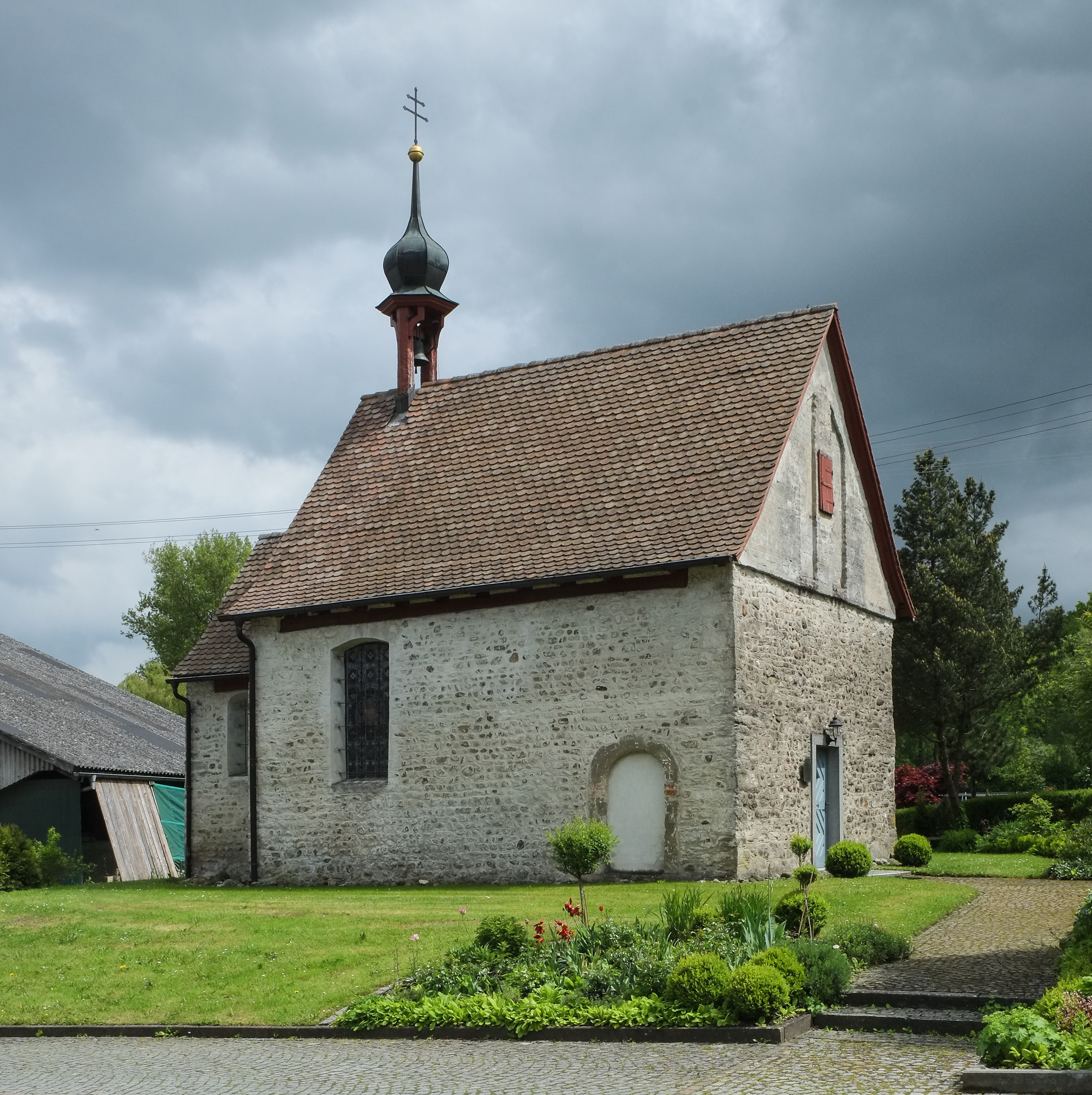 Chapel Saint Maurice, Mauritiuskapelle, Ostrach-Waldbeuren, county Sigmaringen, Baden Wurttemberg, Germany